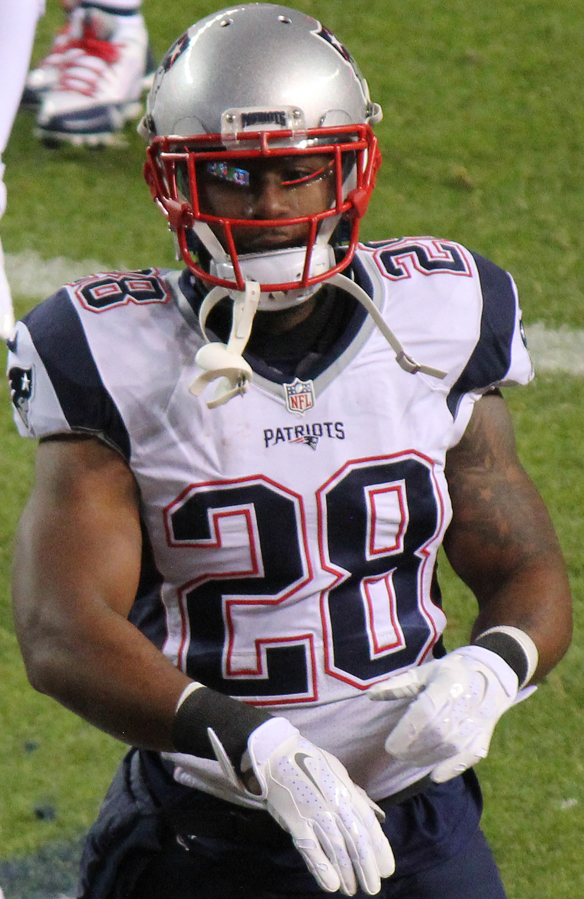 James White, a player on the National Football League.